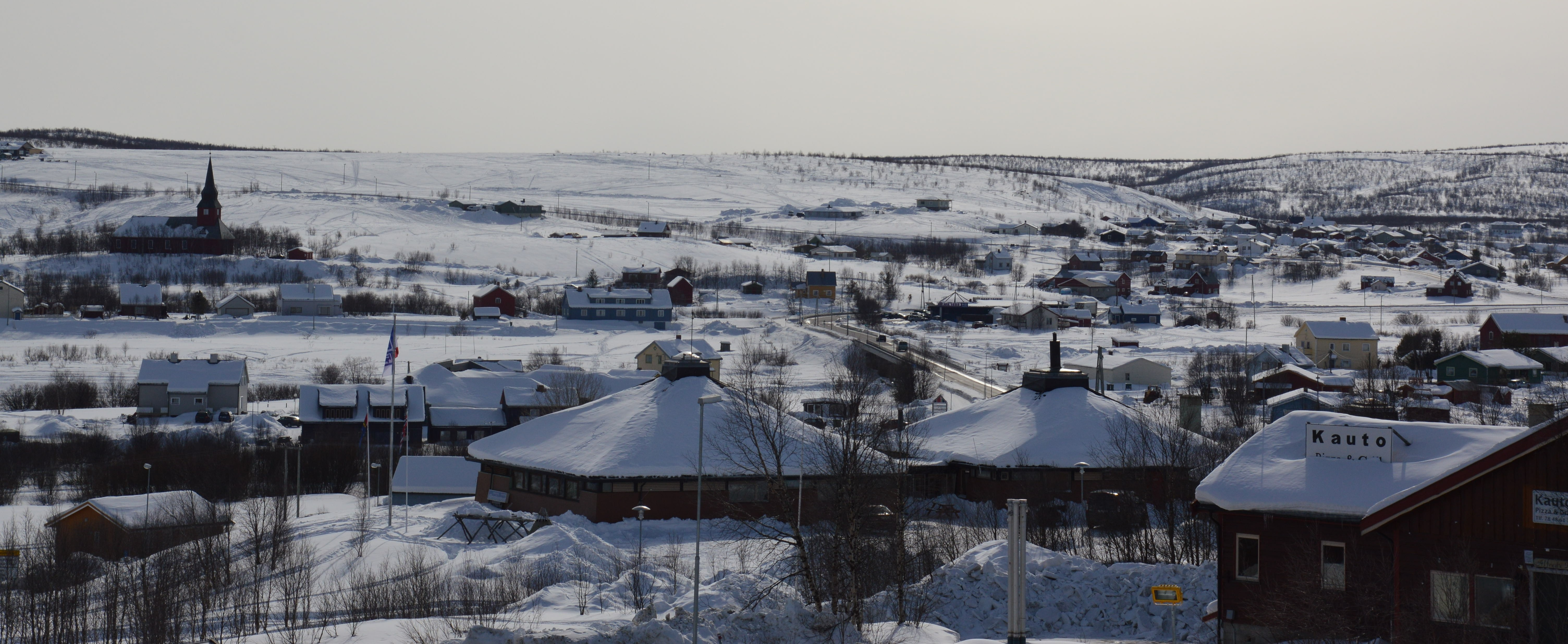 Panorama of Guovdageaidnu/Kautokeino from the Sami Archives in Diehtosiida.